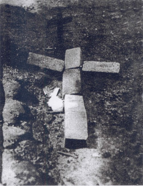 „J. Franaszek S.A.” factory at 41/45 Wolska Street in Warsaw. Ashes of victims of Wola massacre buried in hole in the ground and commemorated by provisional cross. Between 5 and 8 August 1944 at least 4000 Poles were murdered in this place by German troops.